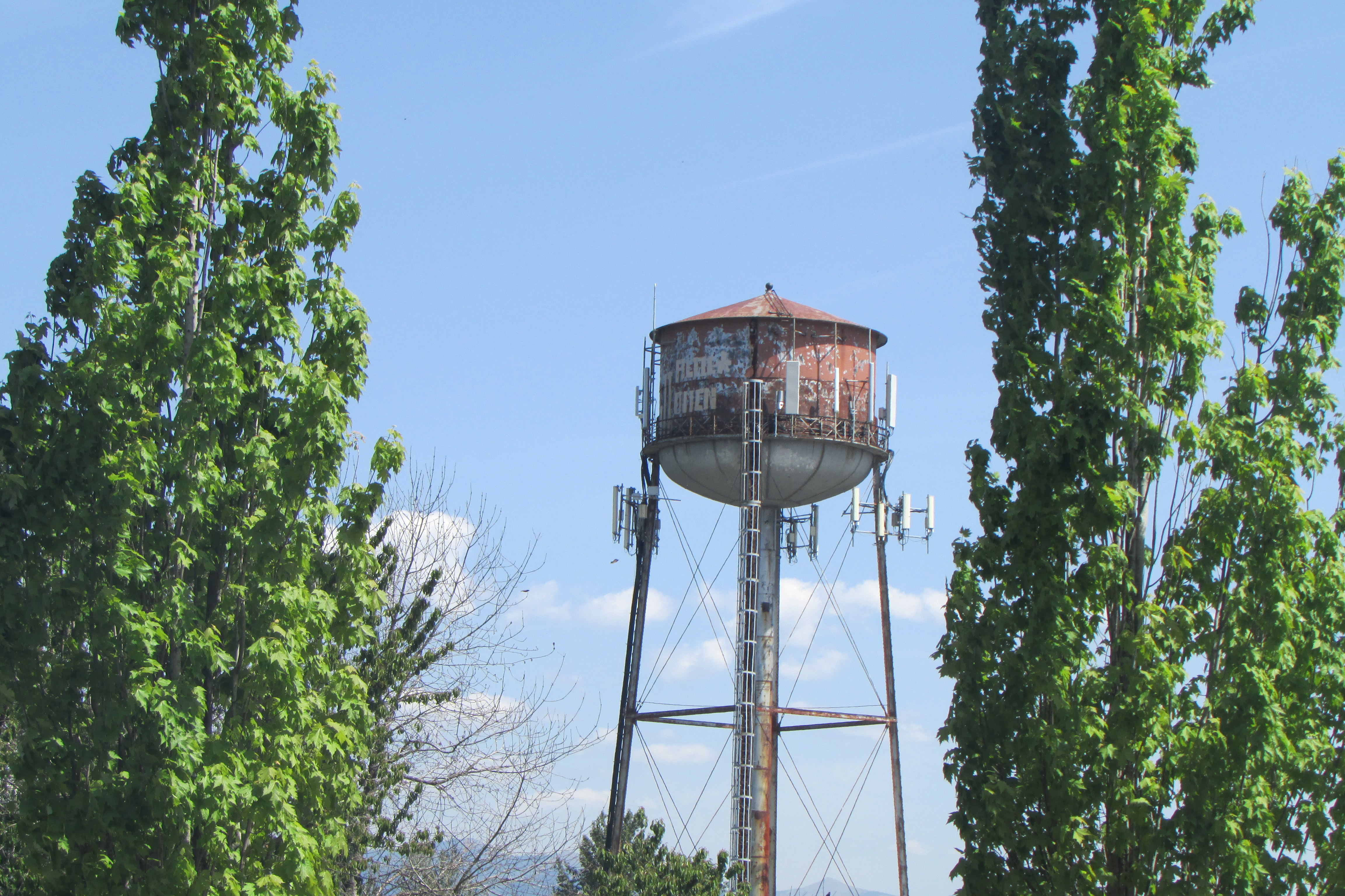 The old historic water tower in Troutdale, Oregon.